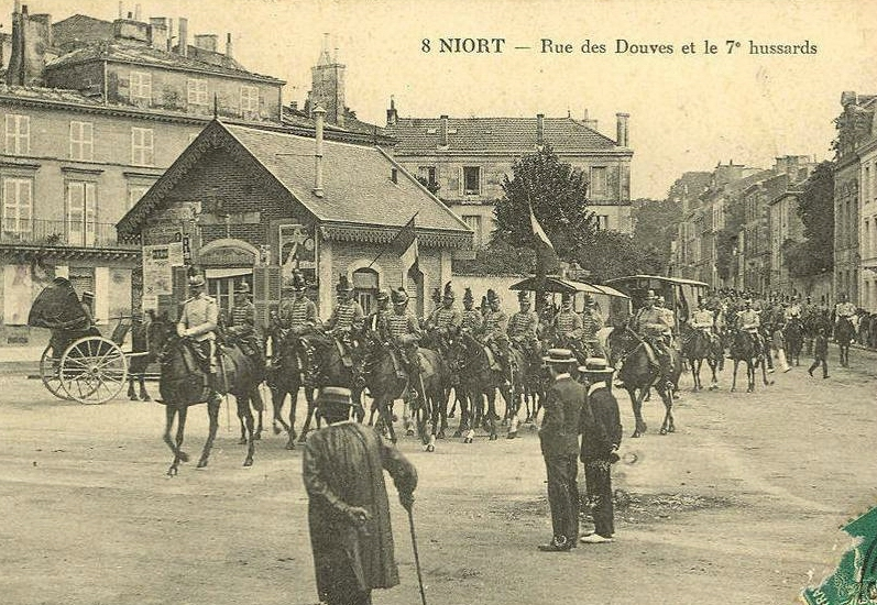 Old French pre-WWI postcard